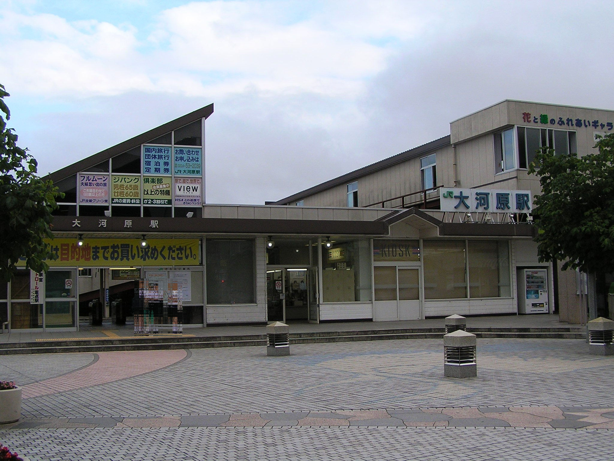 Ōgawara Station, Ōgawara, Miyagi, Japan